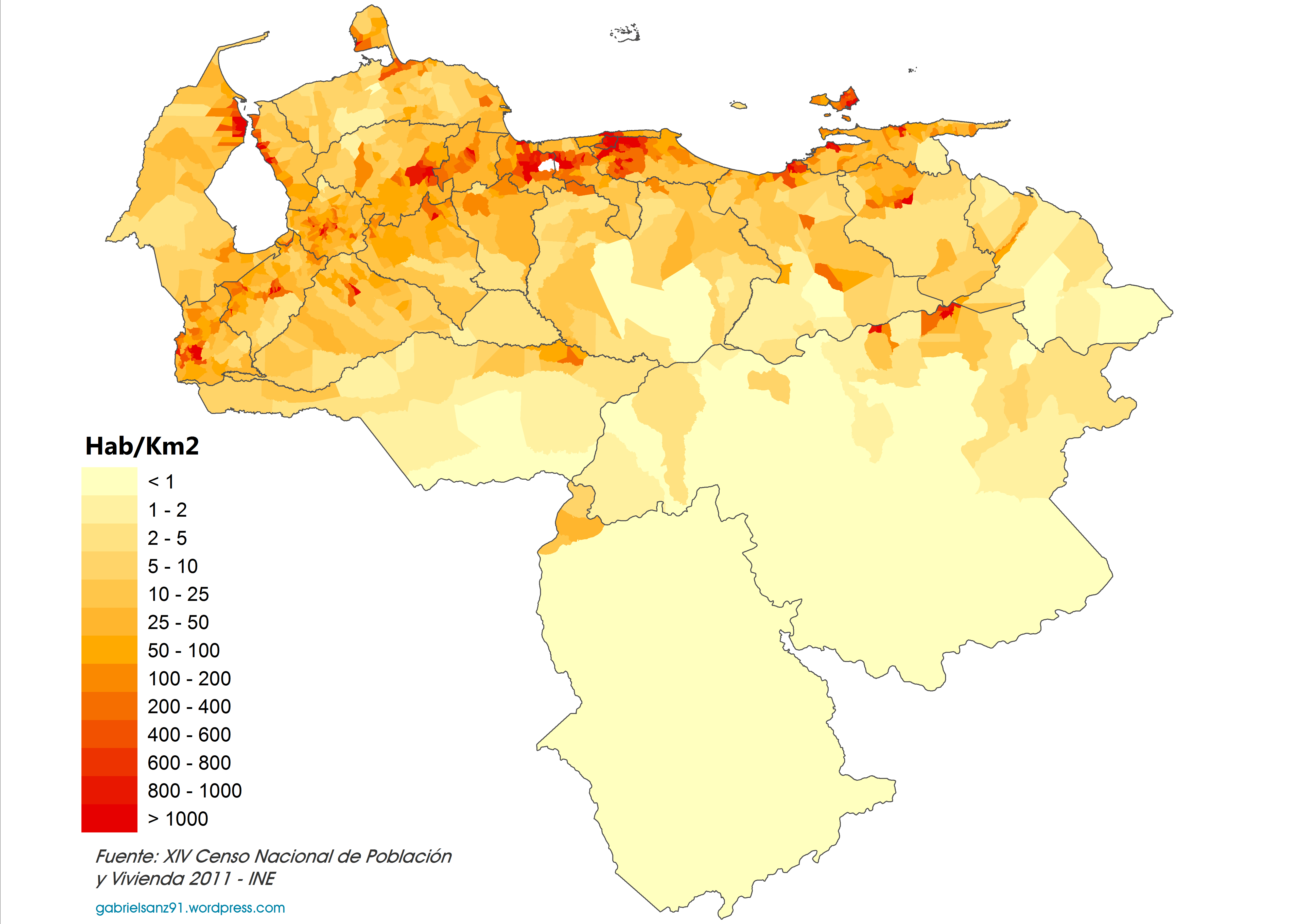 Population density of Venezuela by parroquias (parishes) according the results of 2011 Census.